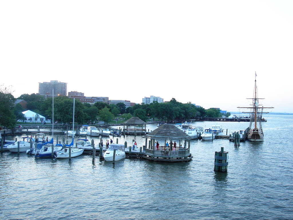 Alexandria's waterfront, seen from the Potomac River.